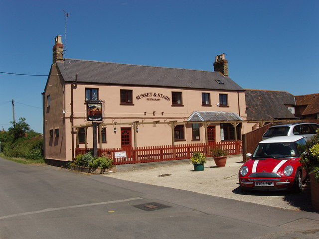 The Sunset and Stars, Piddington, Oxfordshire. This was a public house but has been converted into a restaurant.